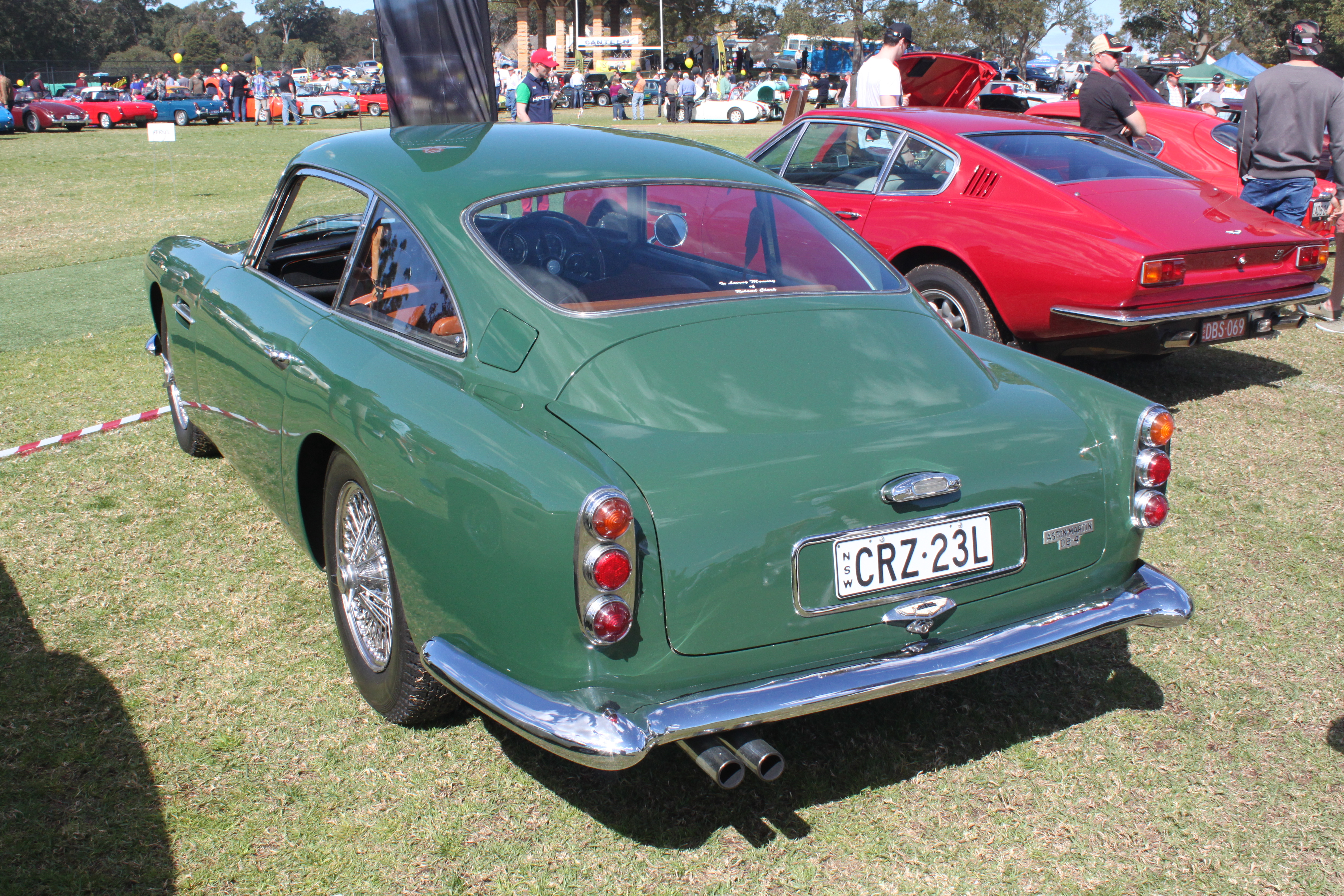 All British Day, Kings School, North Parramatta, NSW August 2015